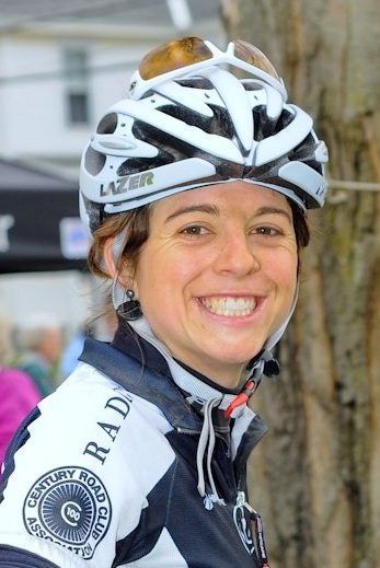 Tour of the Battenkill Road Race - 18-19 April 09 Pro women race winner Evelyn Stevens